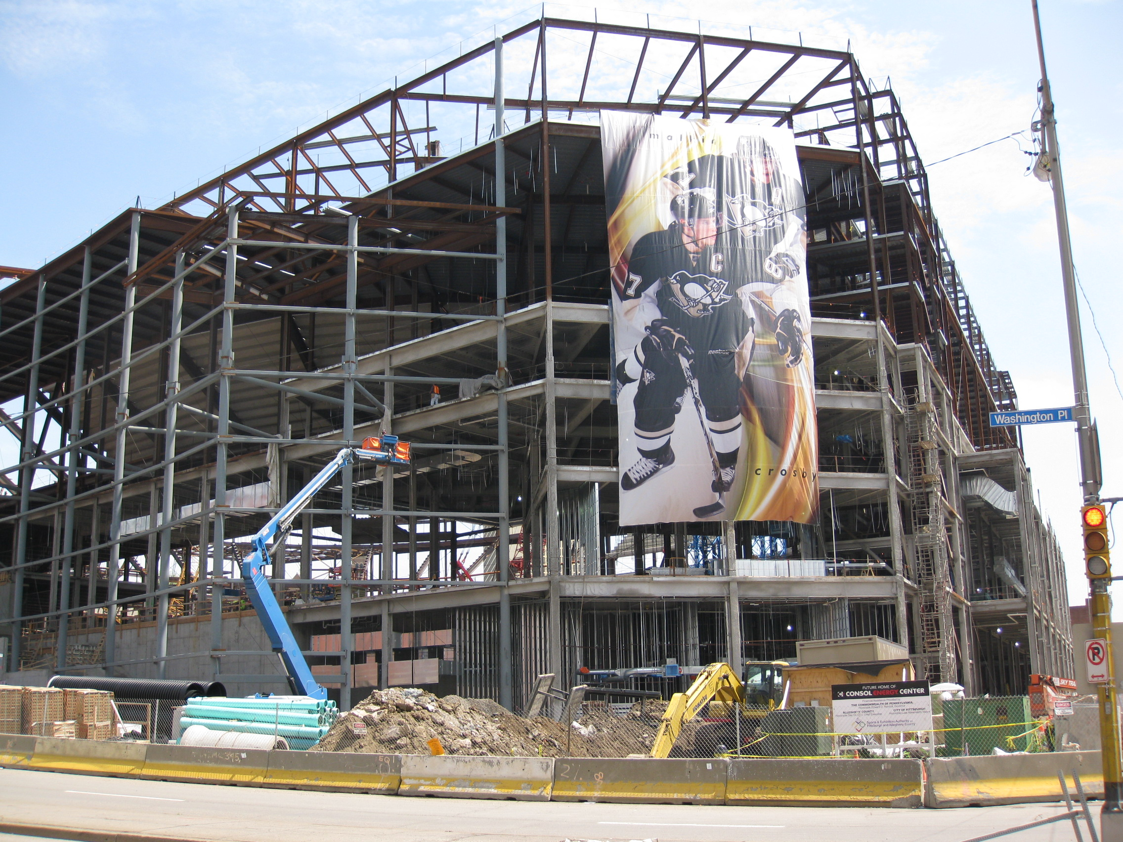 Construction of the Pittsburgh Penguins arena, the Consol Energy Center.